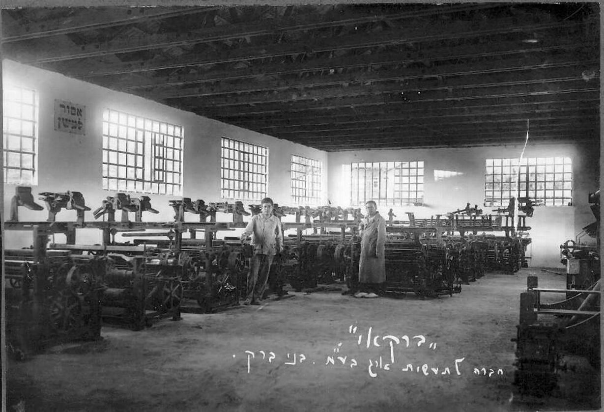 The Barkay Weaving Factory in Bnei Brak.